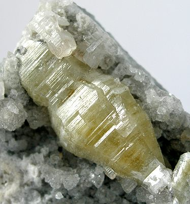 Weloganite Locality: Francon quarry, Montréal, Québec, Canada (Locality at ) Size: miniature, 3.6 x 3.2 x 1.4 cm Weloganite A relatively colorful and large, pagoda shaped crystal, measuring 2.3 cm, sits on its matrix. This rare hydrated, strontium, sodium, zirconium, carbonatate is from the type locality and is named after famed Canadian mineralogist, W.E. Logan. Only a few finds were made of these nice large, straw-yellow crystals over several decades and now, nothing in recent years. These stand as one of the great classic rarities of Canada and indeed, since they are best of species and a totally unique thing, as a marquee rarity by any worldwide standard. ex. George Elling collection